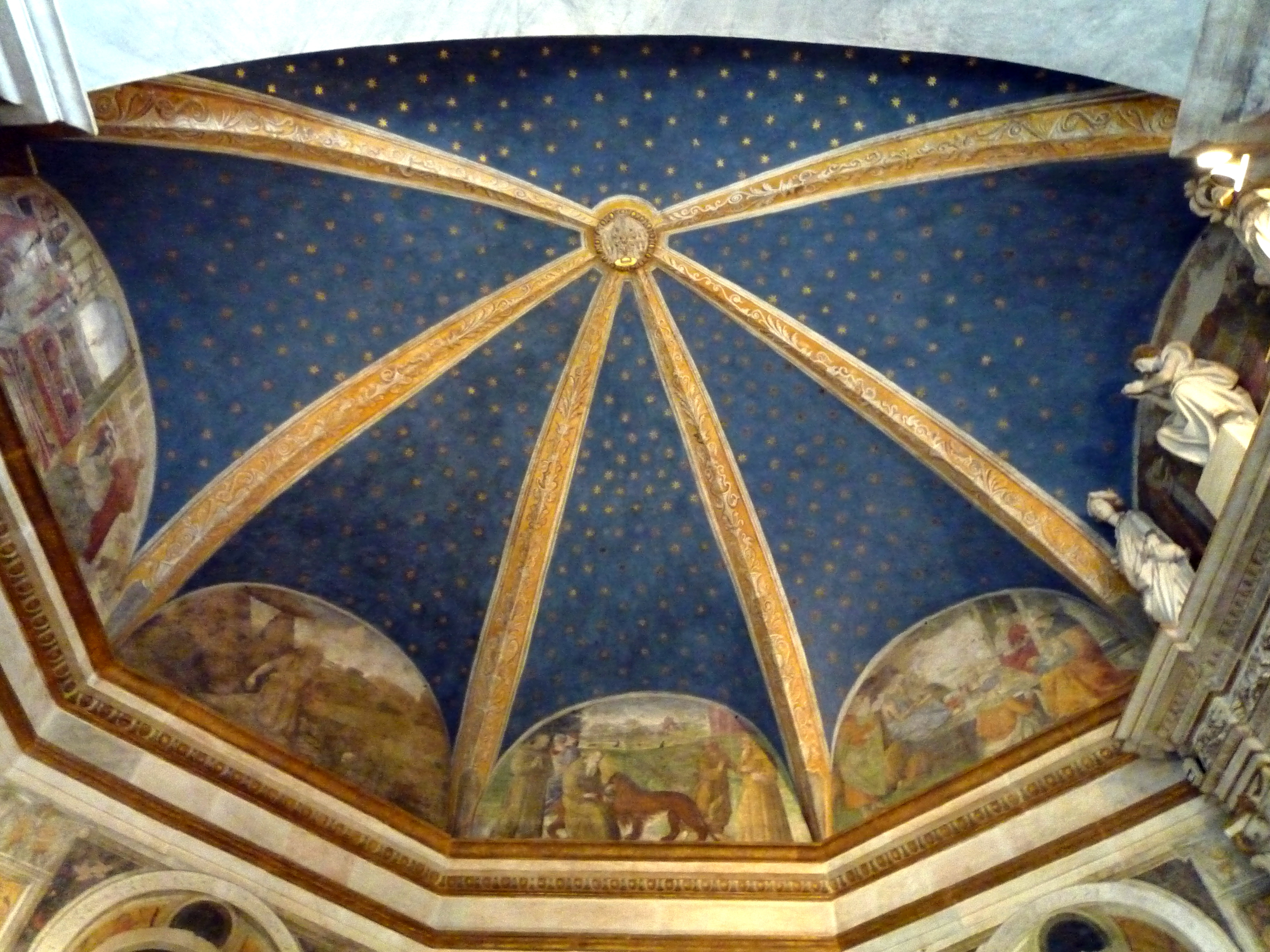 The vaulted ceiling of the Della Rovere Chapel in Santa Maria del Popolo church